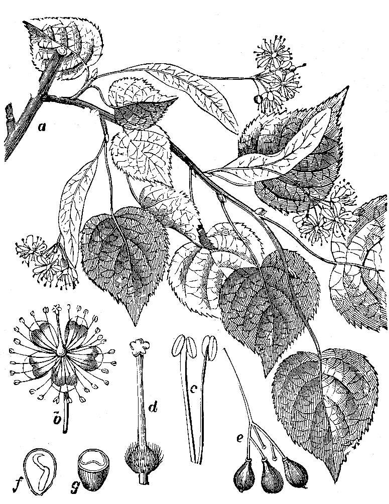 Large-leaved Linden. a. branch b: bloom c: stamen d: pistil e: fruits f,g: seed